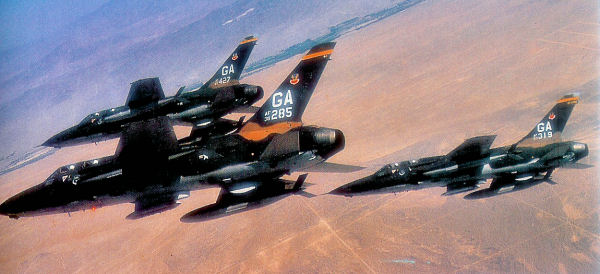 F-105Gs of the 35th TFW, George Air Force Base, California.